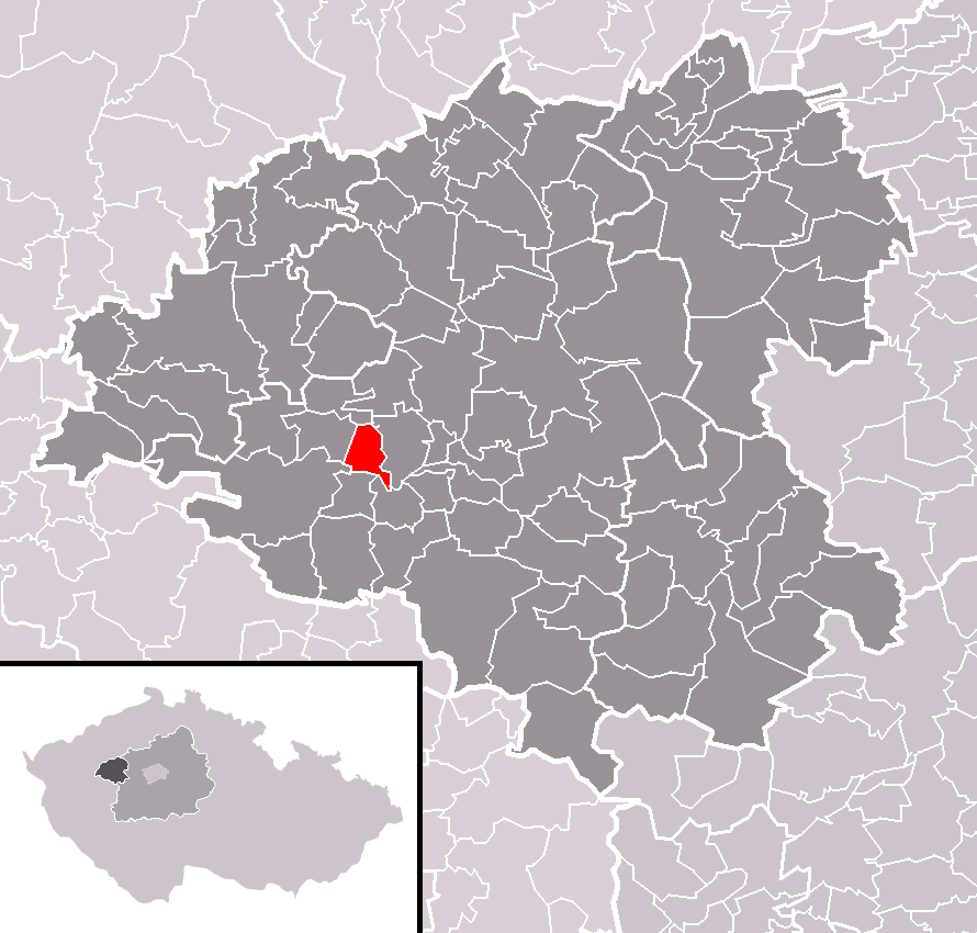 Location of Zavidov municipality within Rakovník District and (identical) administrative area of Rakovník as a Municipality with Extended Competence.